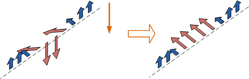 Illustration of magnetic moments of exchange spring magnet